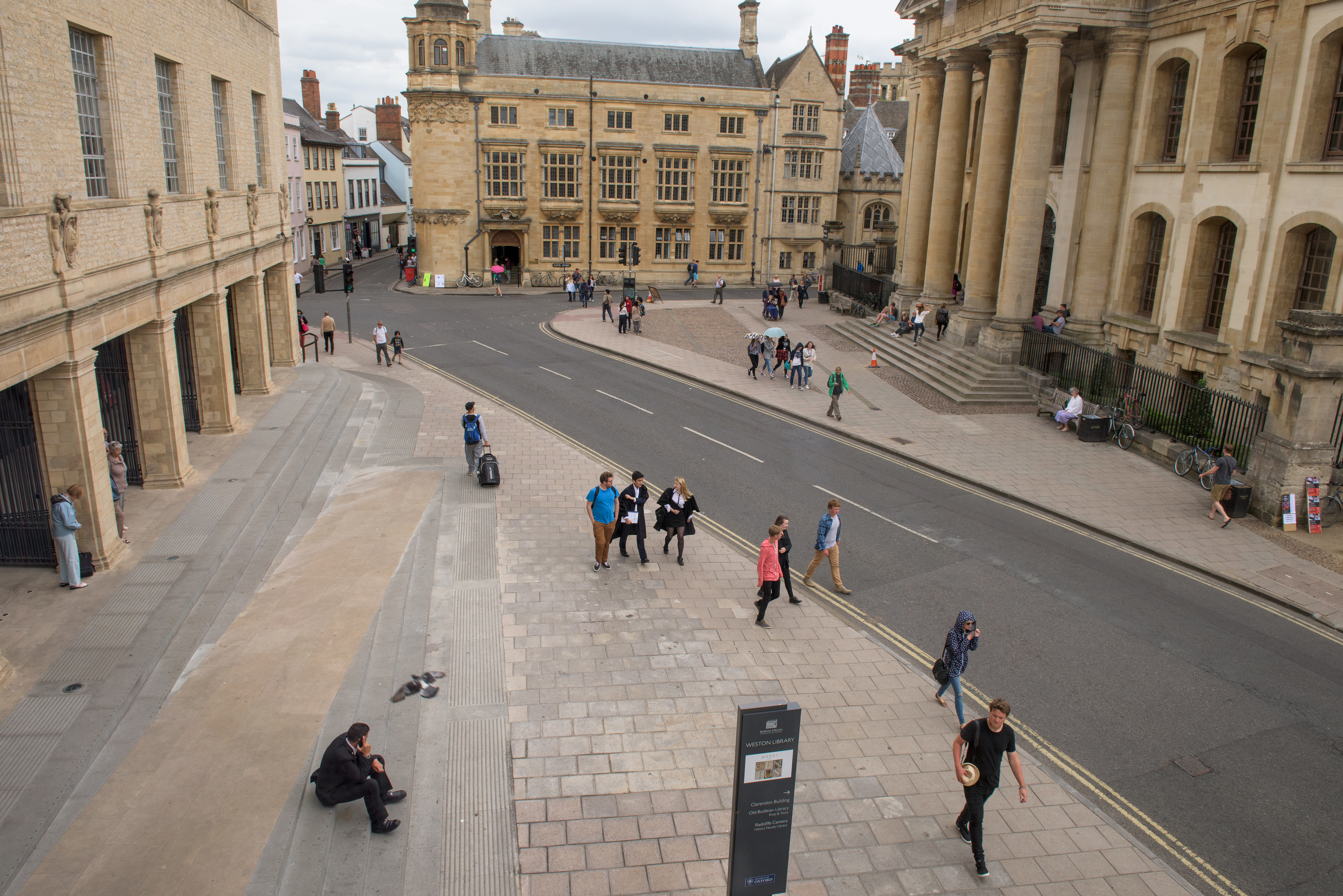 View of the East end of Broad Street, Oxford, with the Weston Library on the left, Oxford Martin School straight ahead, and the Bodleian Libraries' Clarendon Building on the right. Photo taken by John Cairns with copyright owned by the client, Bodleian Libraries, and uploaded to Commons by an authorised employee of the Libraries.